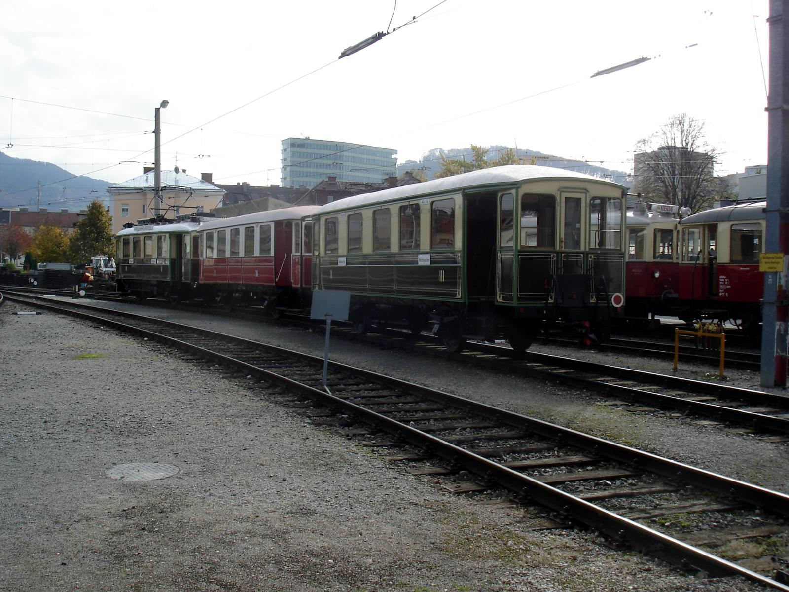 Historic cars of the Salzburger Lokalbahn at Itzling.